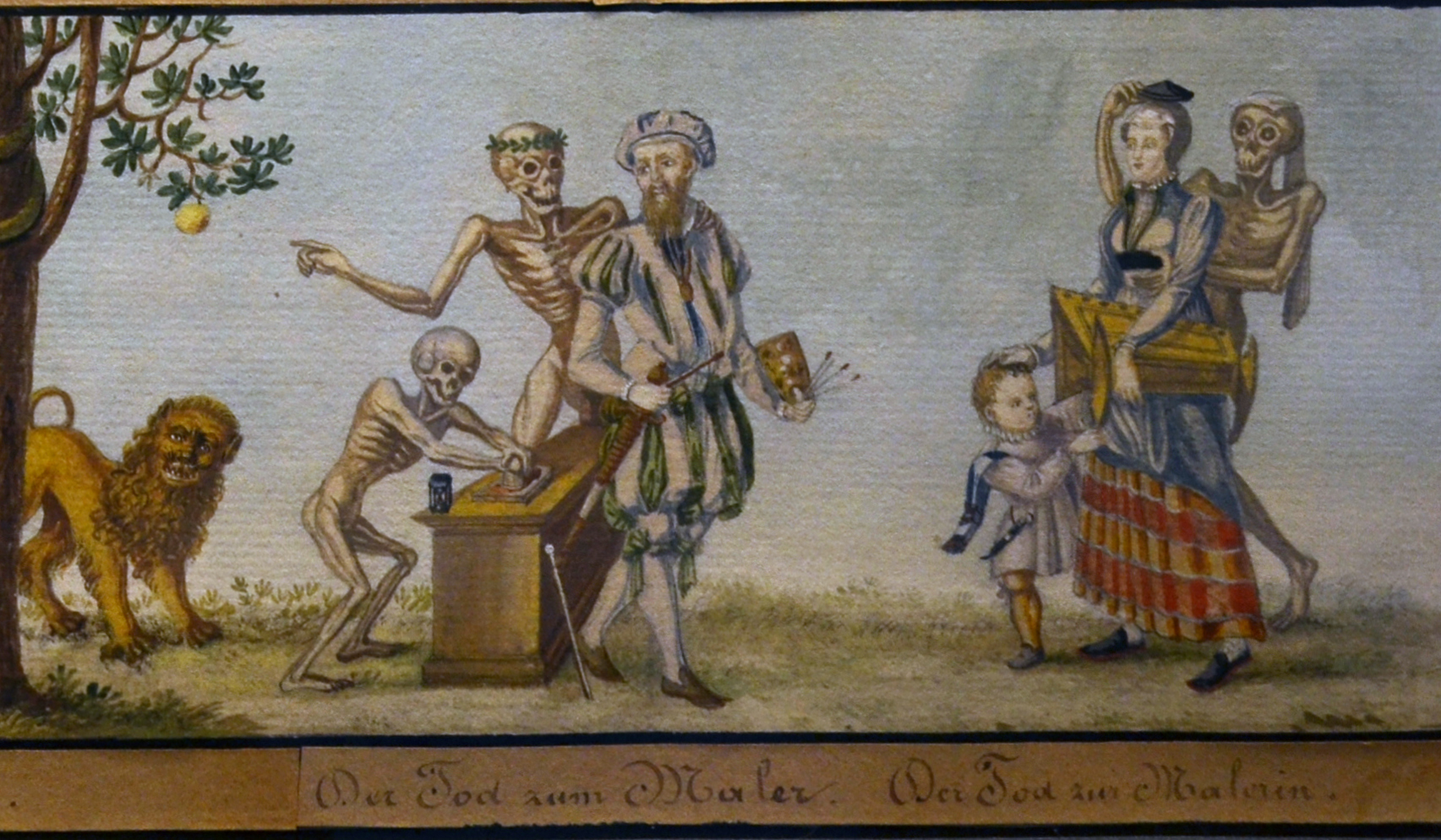 Danse Macabre of Basel, watercolor copy by Johann Rudolf Feyerabend, 1806 : bottom center. Historisches Museum of Basel. Cropped version showing the self portrait of Hans Hug Kluber with his family.